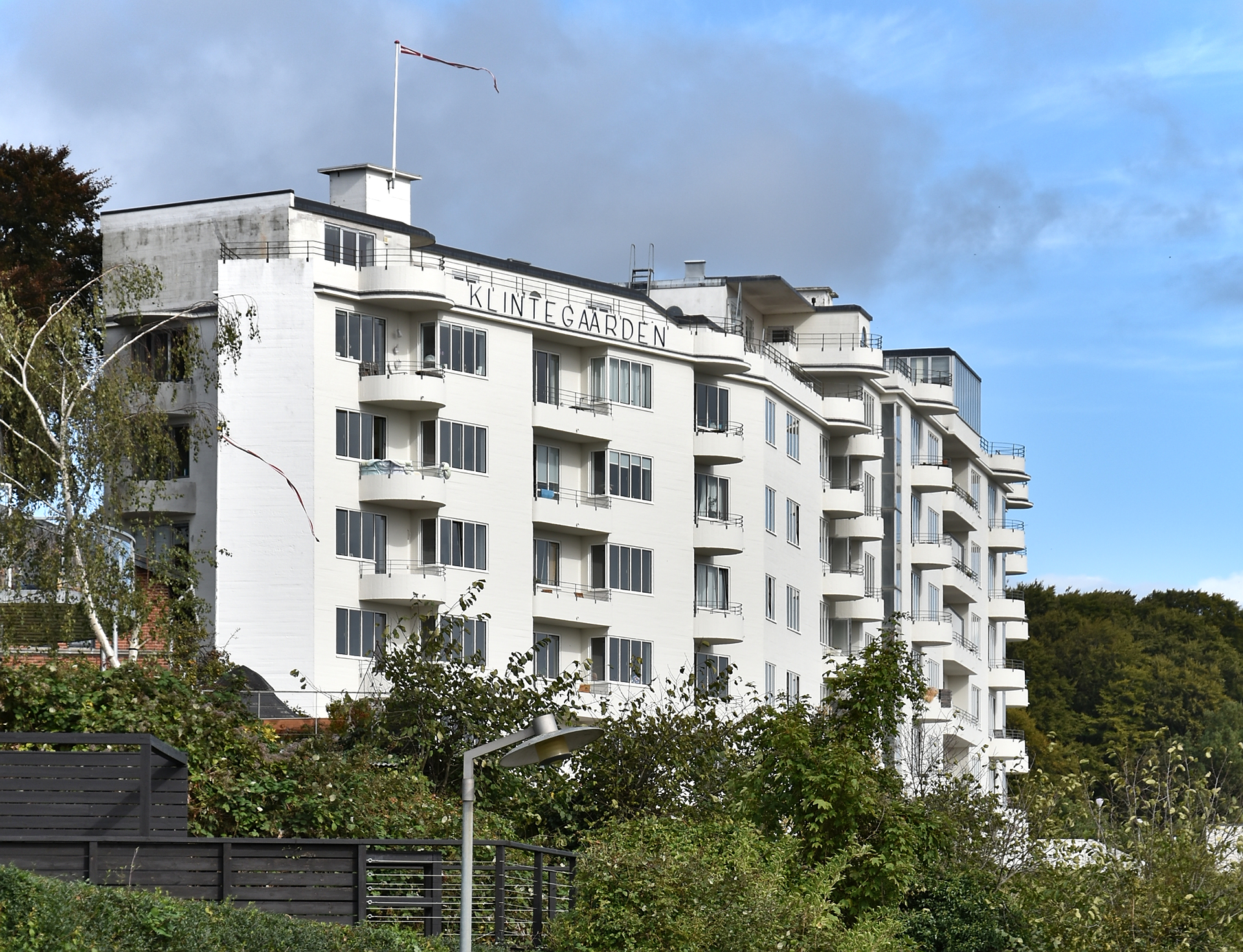 Apartment complex Klintegaarden (from 1936-38), Aarhus, Denmark. View of eastern blocks from south.